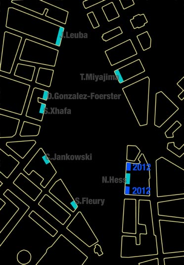 Plaine of Plainpalais: localisation of light art pieces of the Neons project